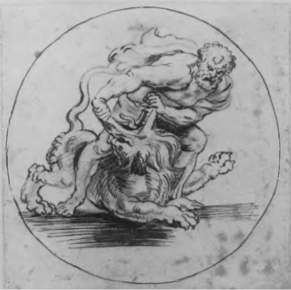 Rubens, Samson and the Lion,drawing. Paris, Fondation Custodia, Institut N éerlandais